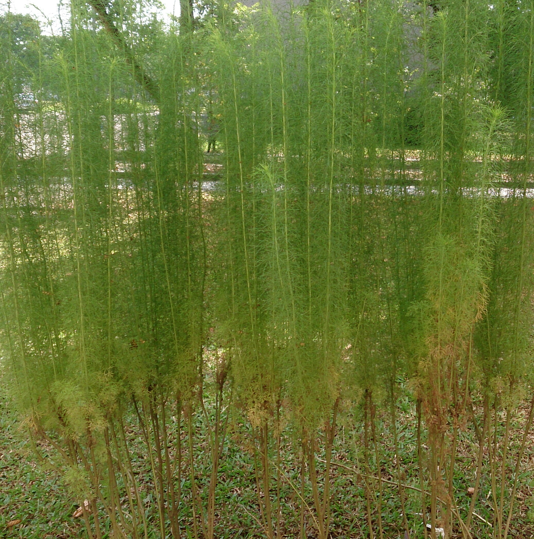 Artemisia scoparia. 茵陈